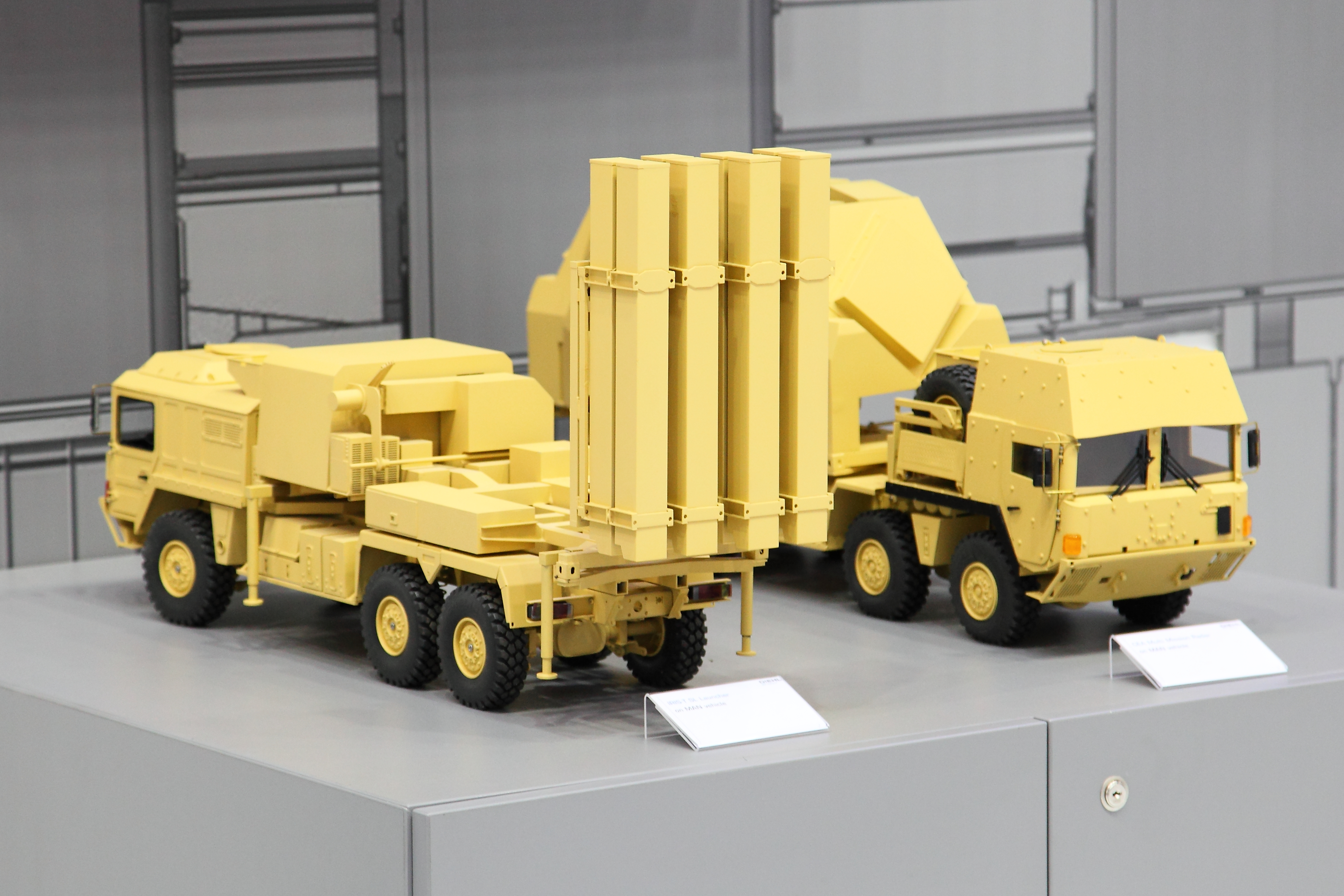 ILA Berlin Air Show 2012; IRIS-T SL Guided Missile (left), ground-based multi-mission radar (right)